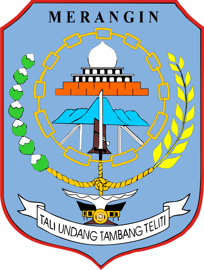 Lambang (Coat of Arms) of Kabupaten (Regency) Kabupaten Merangin, Provinsi Jambi (Jambi Province), Indonesia